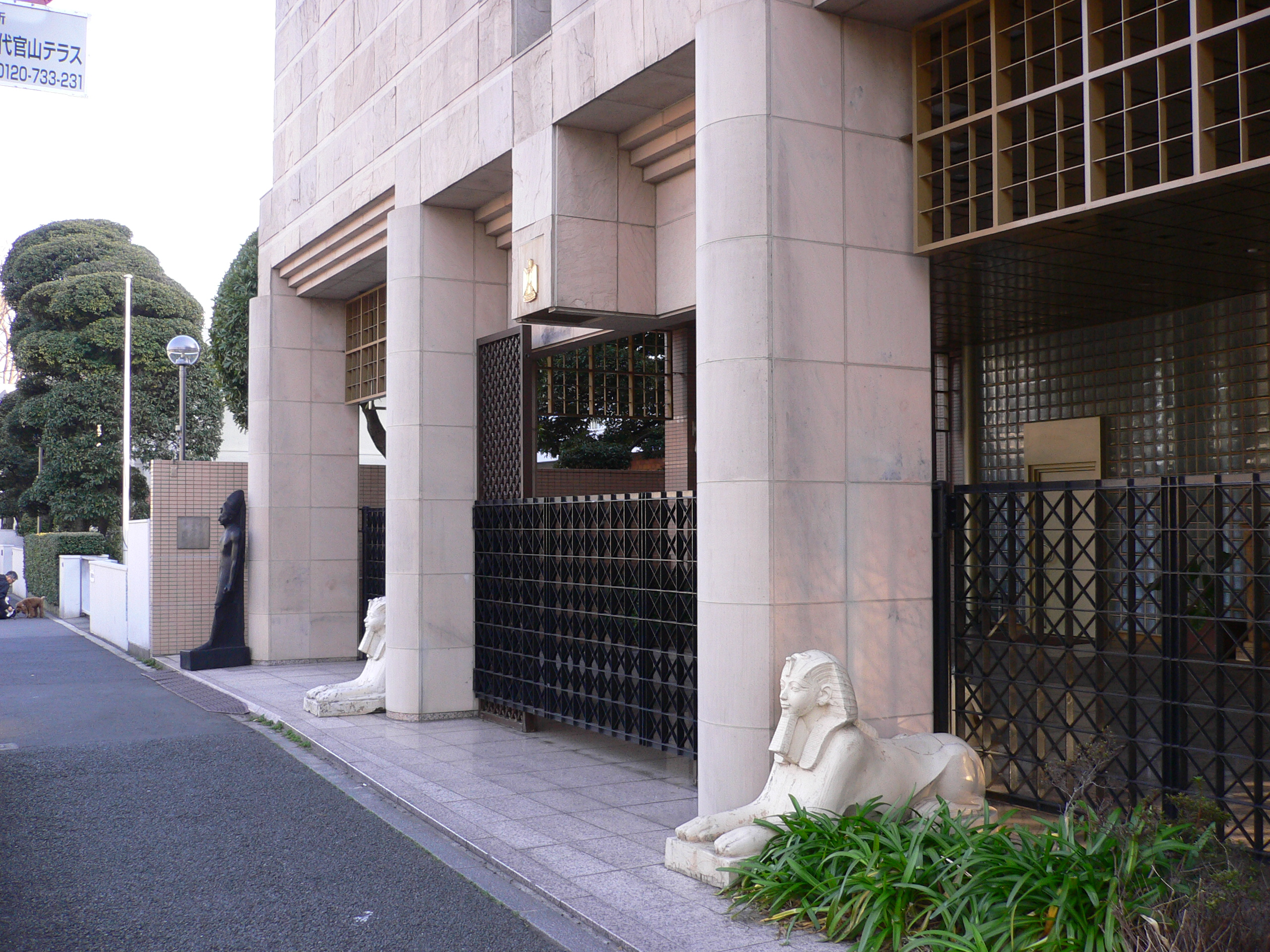 Embassy of Egypt, Kyuyamate-dori Ave., Tokyo